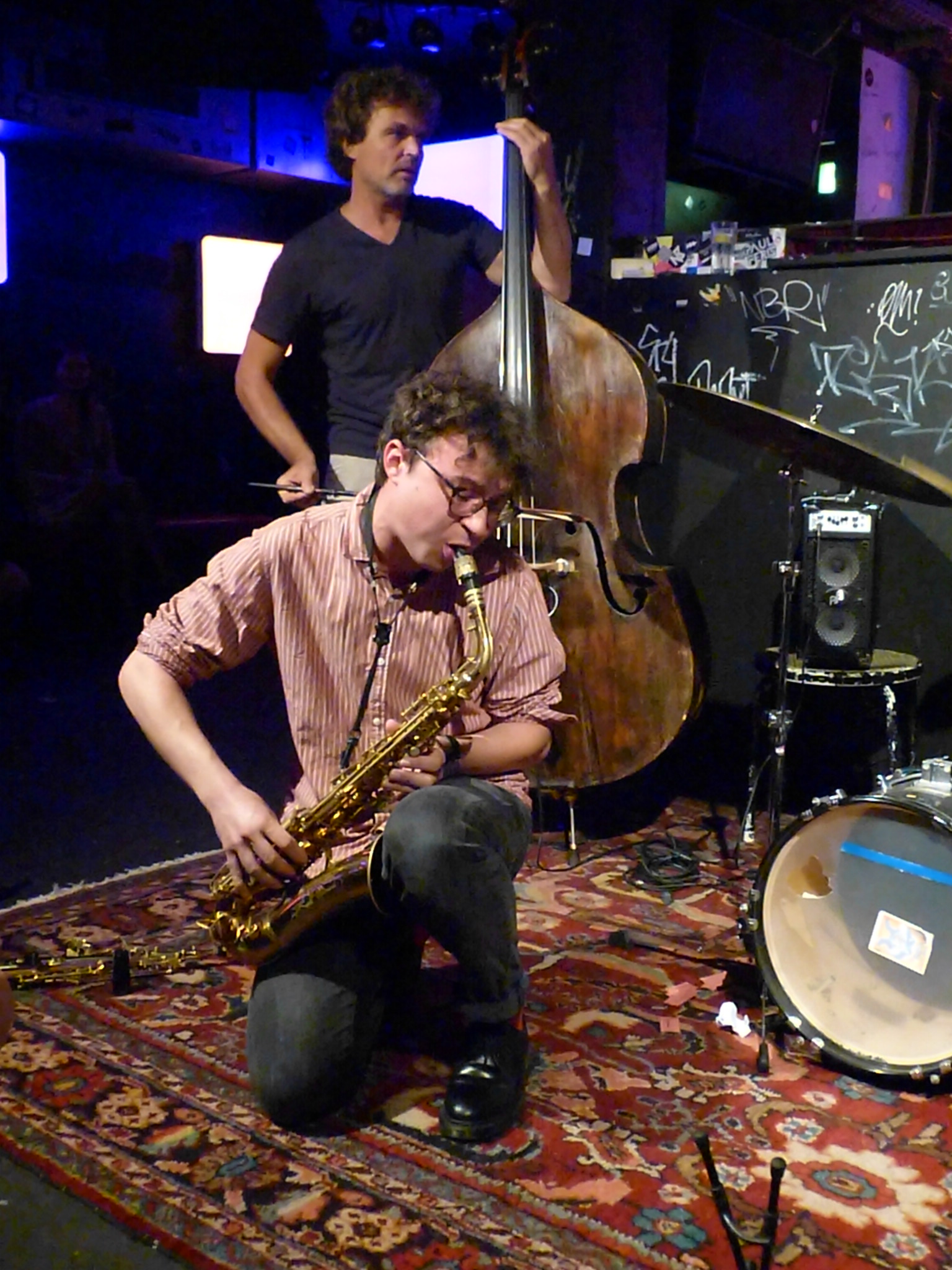 Sebastian Gramss (b) and Fabian Dudek (sax) in concert of the ensemble F Hera X with Anna-Lena Schnabel (sax,fl), Etienne Nillesen (dr), and Reza Askari (b) at ARTheater, Cologne, Germany, August 15th, 2017